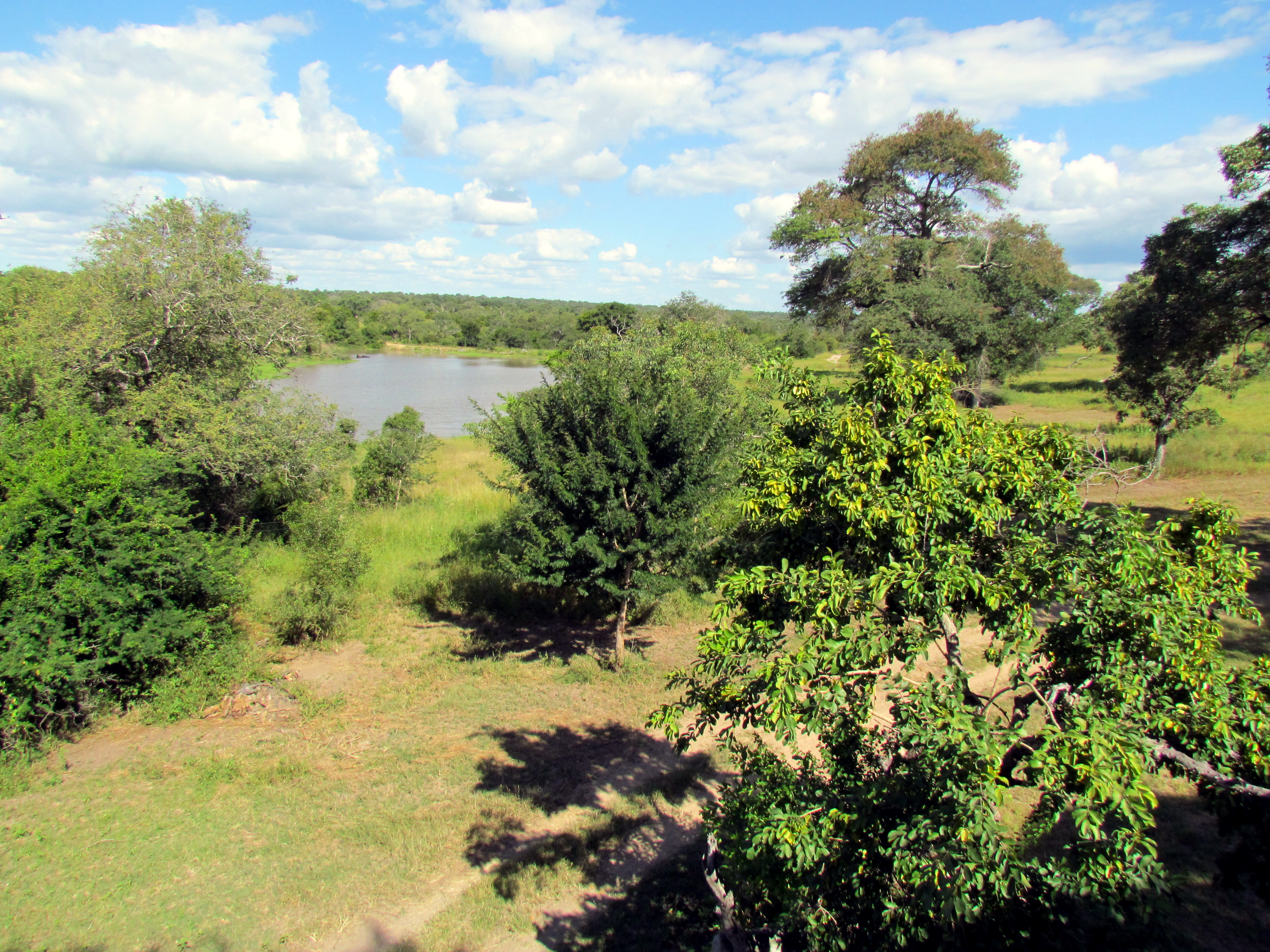 View of a dam at Djuma Game Reserve's Vuyatela Lodge. The game reserve is part of Sabi Sand Private Game Reserve which is adjacent to the Kruger National Park, in Mpumalanga, South Africa.